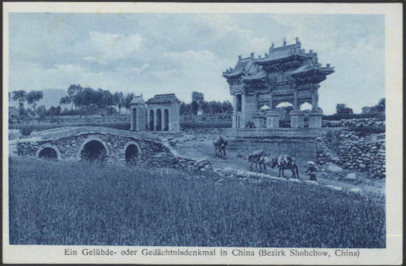 Pailou in Yuanping, Shanxi, China. Dated back to Qing Dynasty, this Pailou was erected in praise of Wu Fangchou's mother, who became a widow at 28, didn't remarry all her life and taught her son to become a officer holding a high status.